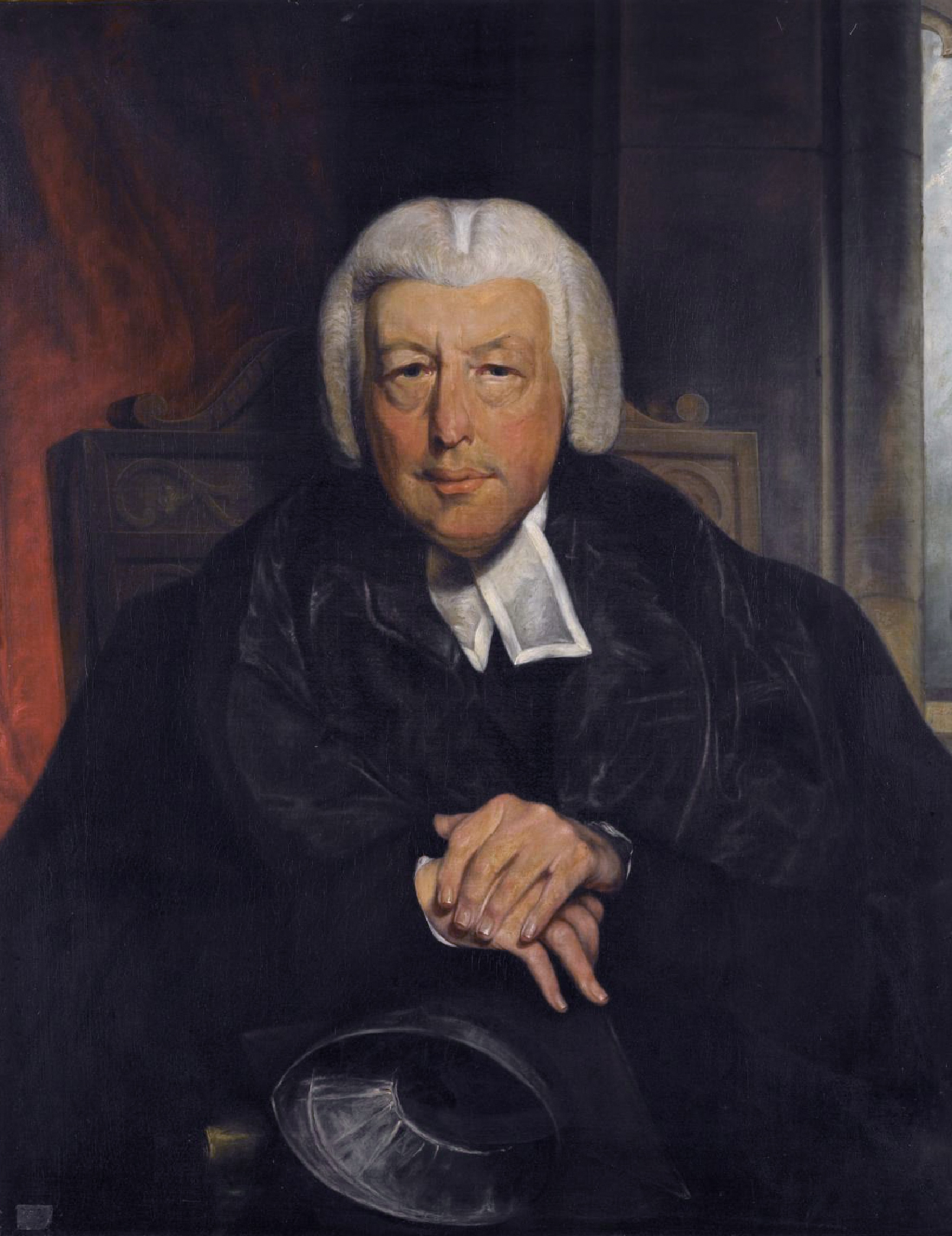 Cyril Jackson (1746-1819), headmaster of Westminster School and dean of Christ Church, Oxford